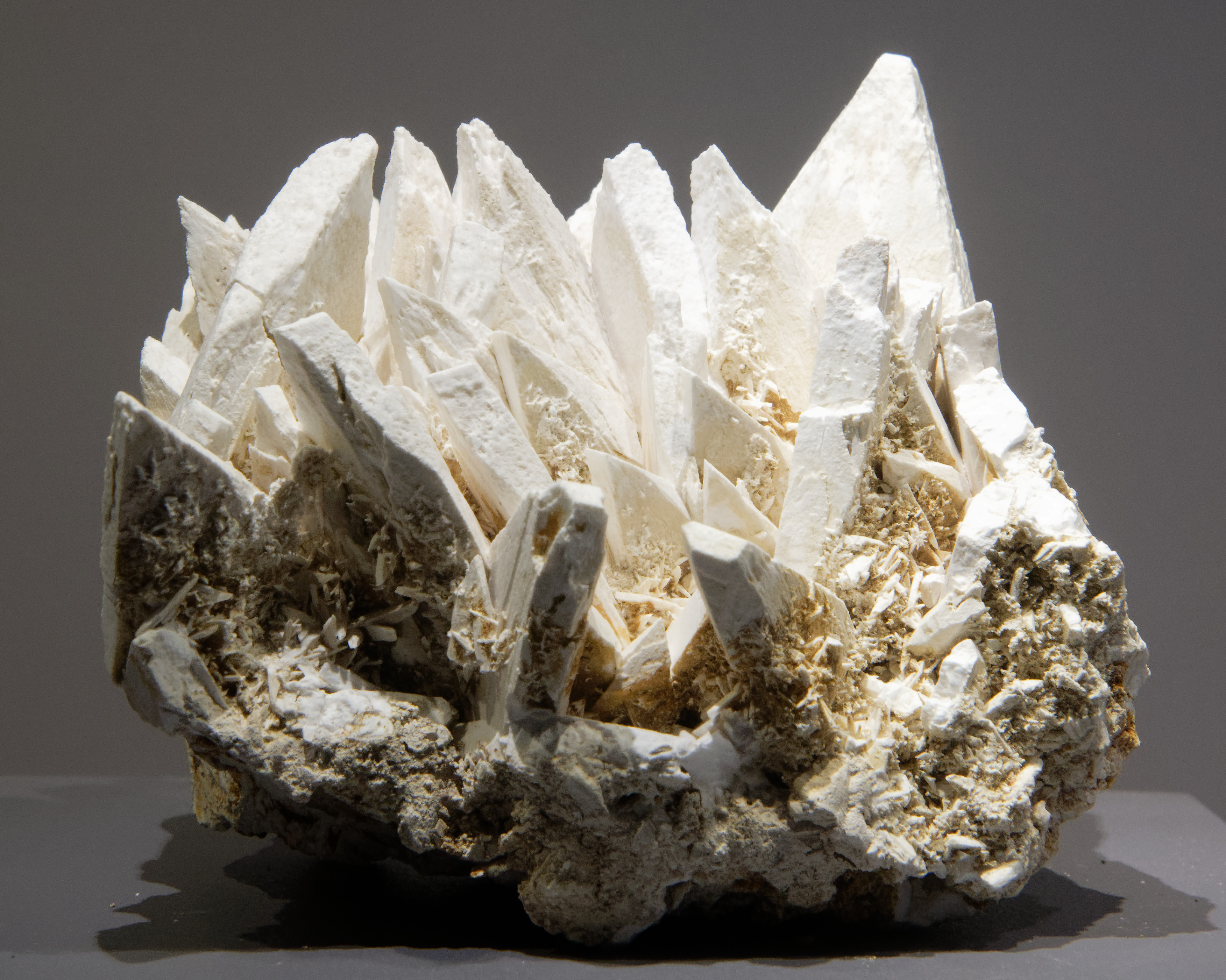 Borax from Boron, California, United States. Gallery of Mineralogy and Geology of the French National Museum of Natural History in Paris.